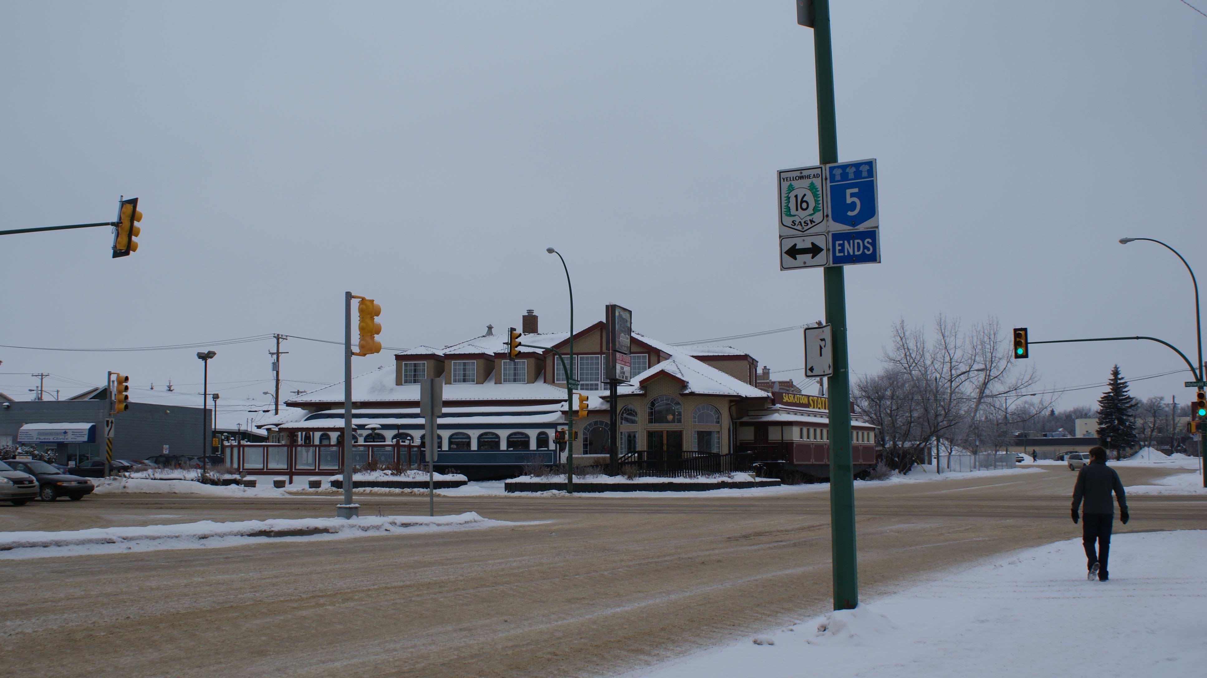 Sk Hwy 5 ends. Junction with Yellowhead. The background shows the Station restaurant in Saskatoon at the intersection of 23rd ST and Idylwyld Dr N